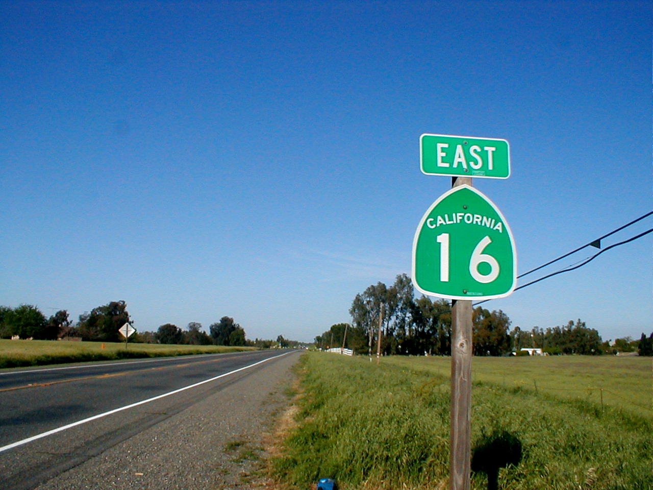 Heading east along CA 16 in Yolo County, CA. Picture taken 2003 by Glenn Pillsbury.